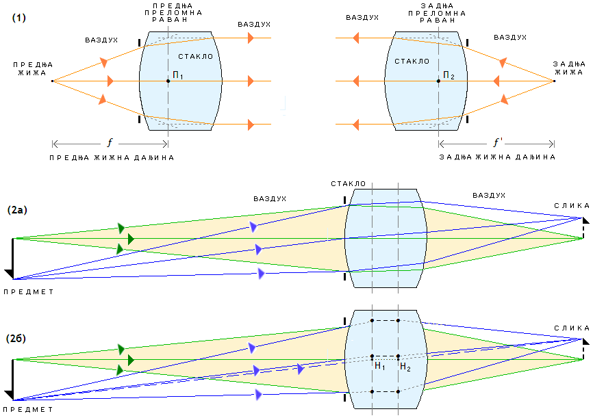 ПРЕЛОМНА РАВАН ОПТИЧКОГ СКЛОПА